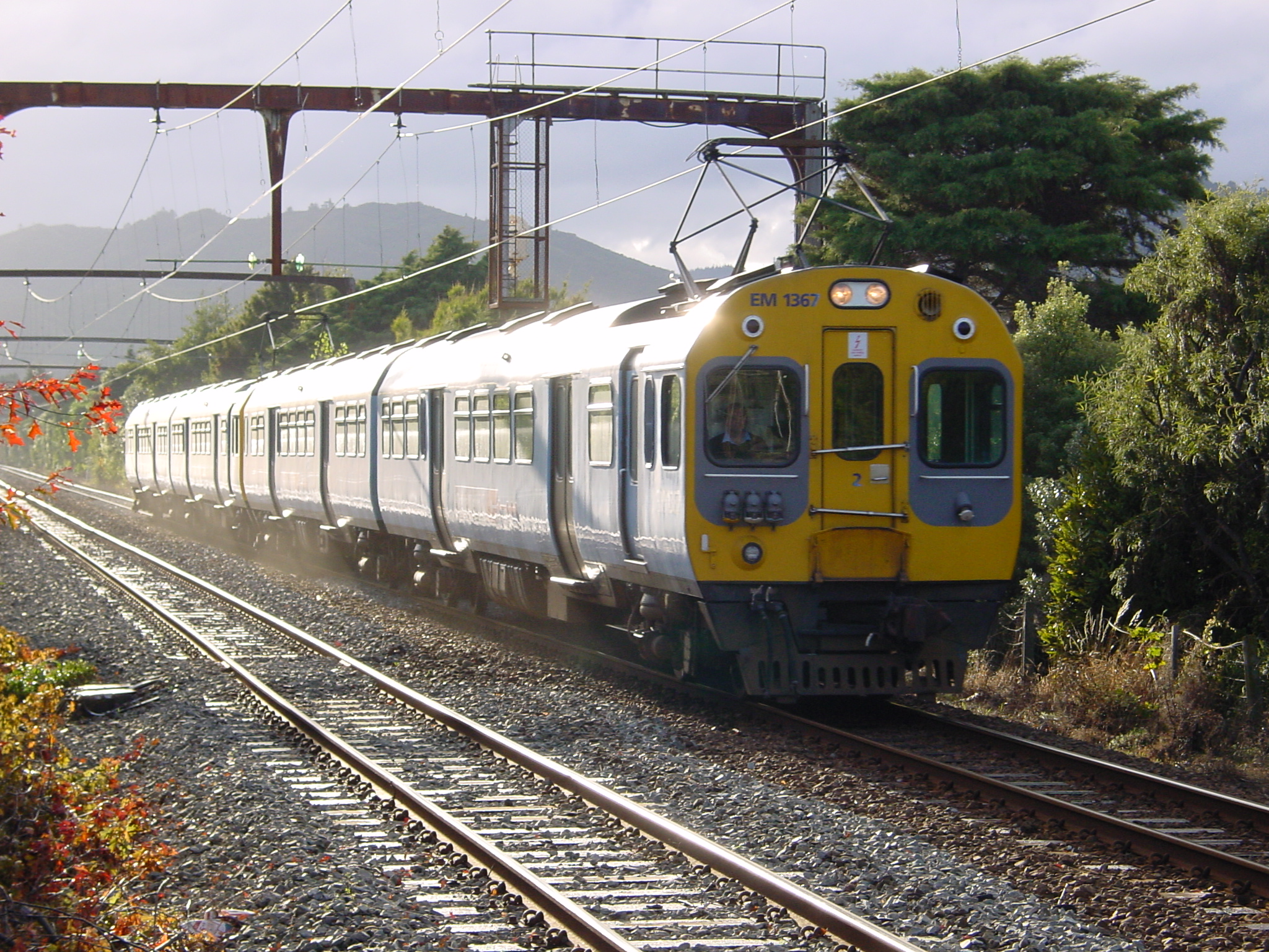 EM 1367 leading a southbound 4 car set as the morning sun breaks through the clouds, near Epuni - 17 May 2003Photo by: Joseph Christianson